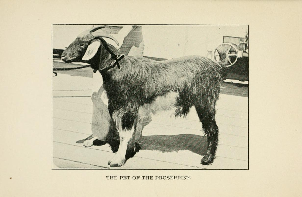 HMS Proserpine - the pet of the Proserpine 1901, taken from the book "The Yankee in Quebec" by Anson Albert Gard.